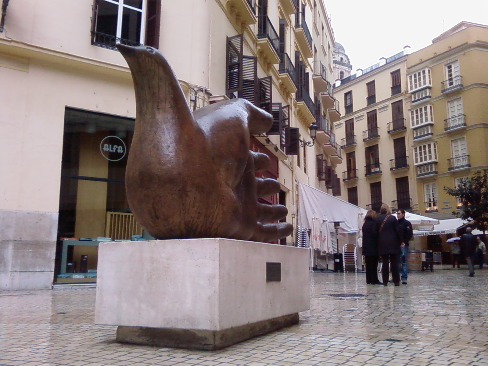 Sculpture by José Seguiri in Málaga, Spain